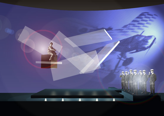 Scenography for B. Brecht Lindberghflug